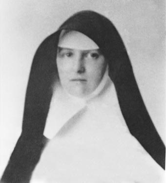 Sr. Bertrand, founding principal